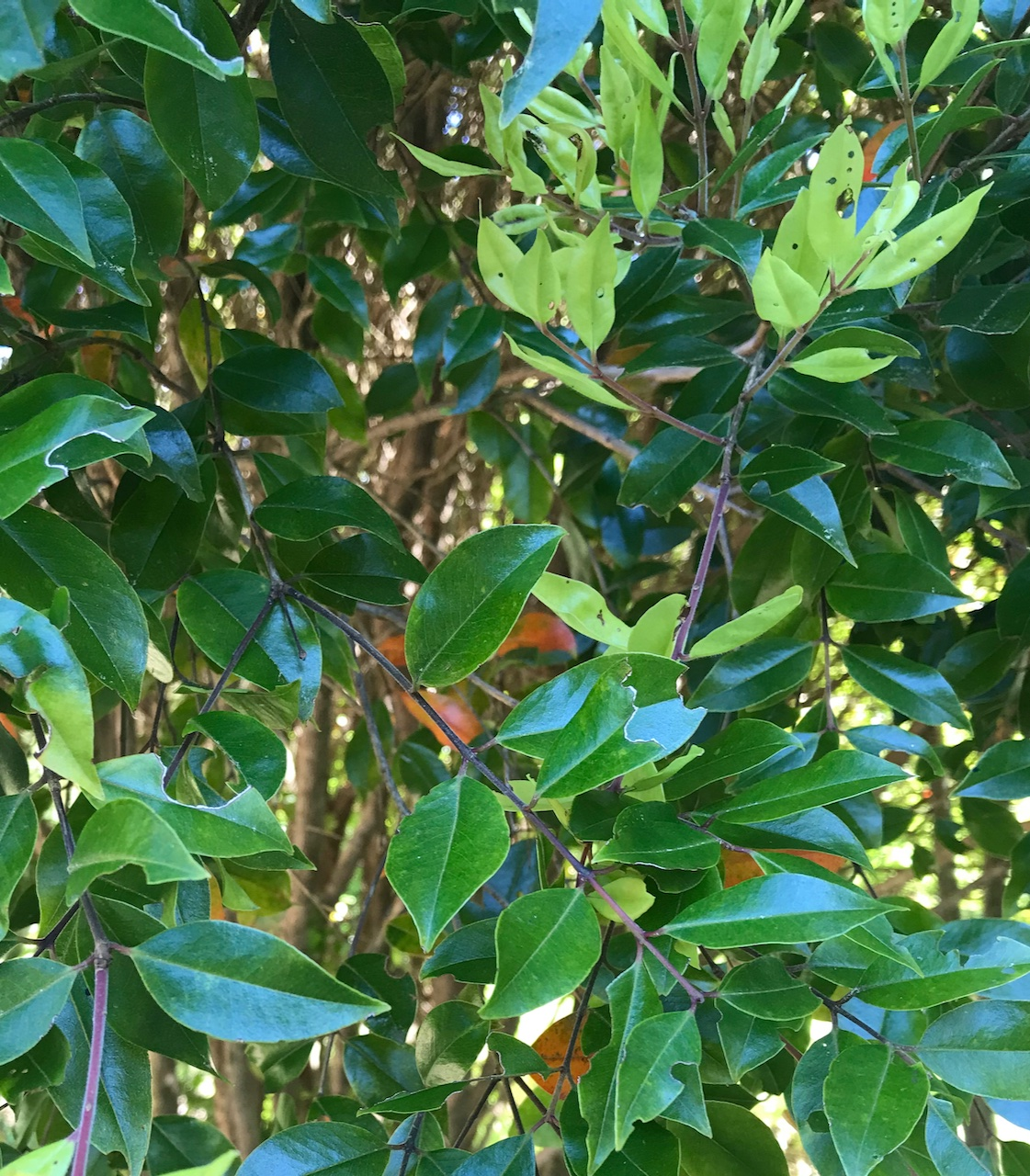 Metrosideros bartlettii (Bartlett's rātā), Otari-Wilton's Bush, Wellington, New Zealand